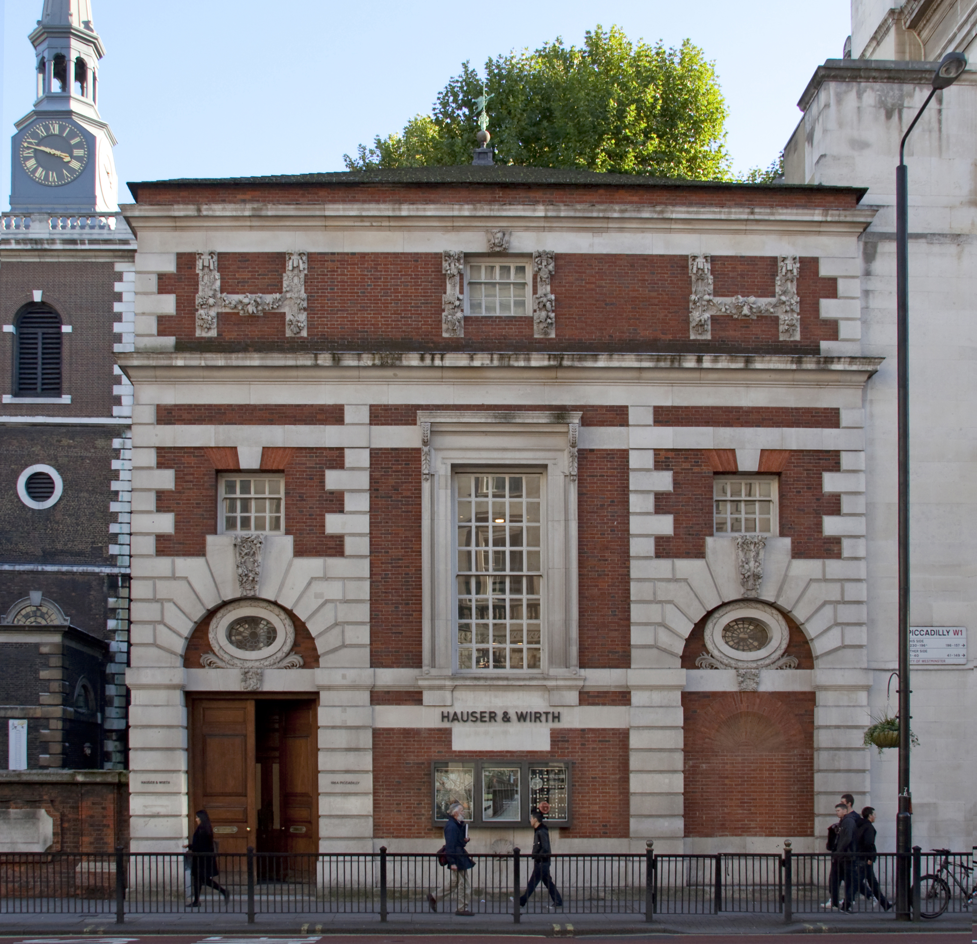 ex Midland bank branch office on corner of St. James's Churchyard. Designed by Sir Edwin Lutyens and built 1922-23